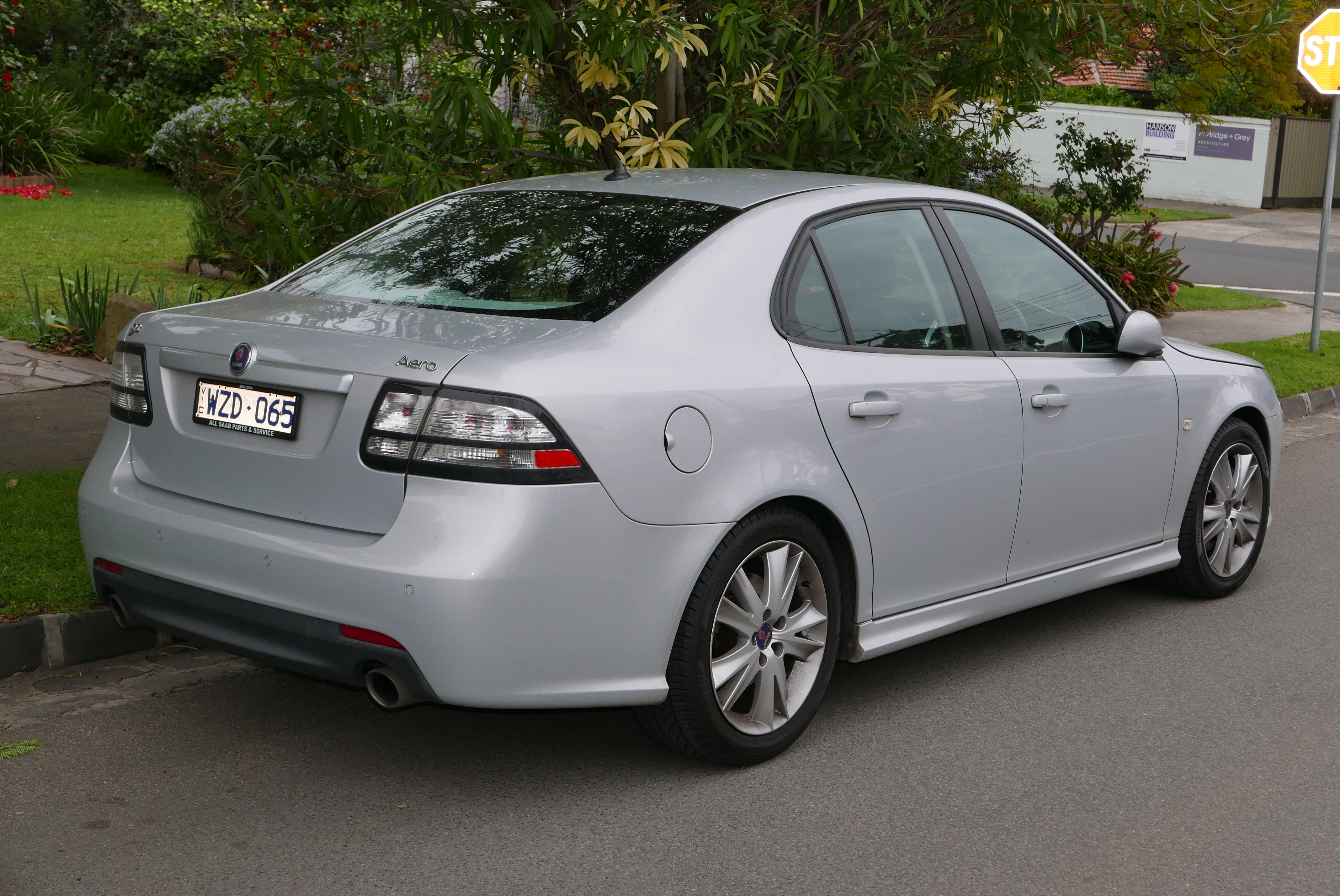 2009 Saab 9-3 (MY08) Aero 2.8T sedan. Photographed in Kew, Victoria, Australia. Vehicle registration enquiry results Jurisdiction Victoria Registration WZD065 Chassis code YS3FH41U181102840 Engine code B284LAA008032231 Compliance date 2009-06 Year of manufacture 2009